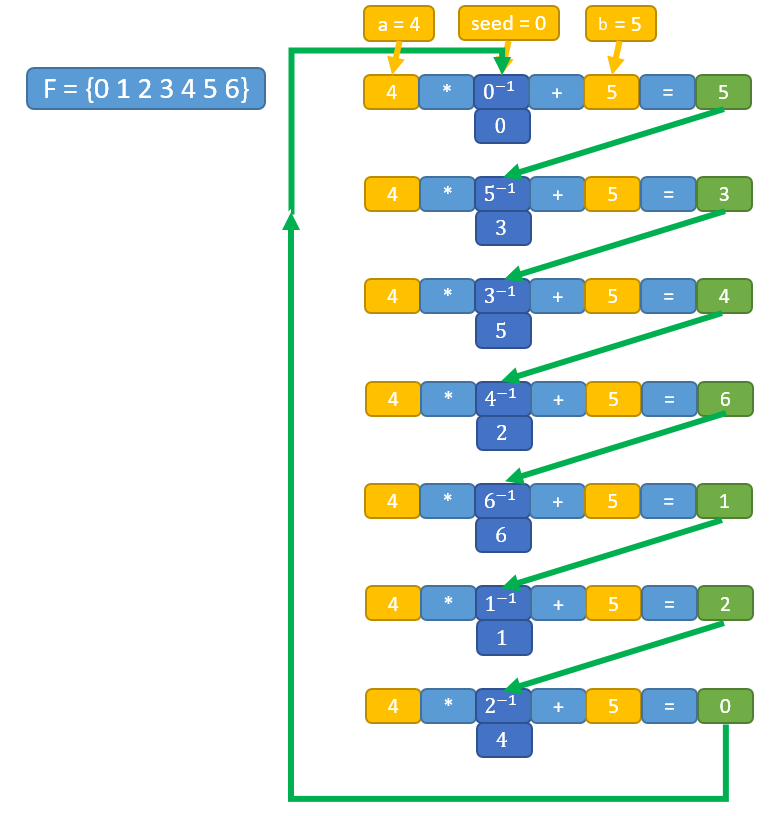 Example of inversive congruential generator